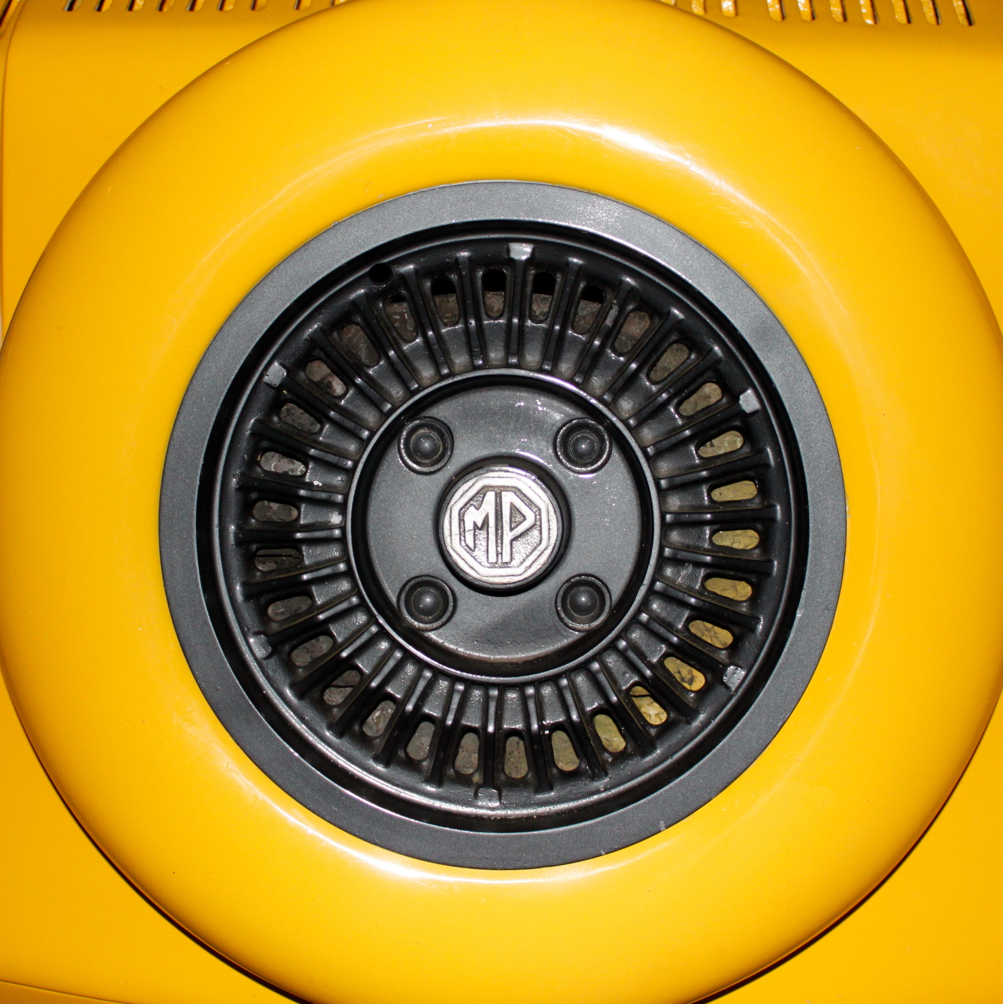 traditional MP Lafer back